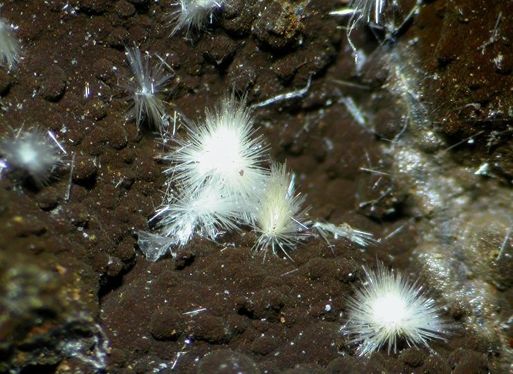 Churchite-(Y) Locality: Leonie I Mine (Leonie Mine; Alte Leonie Mine), Auerbach, Upper Palatinate, Bavaria, Germany Field of view 6 mm. Specimen and photo Leon Hupperichs.